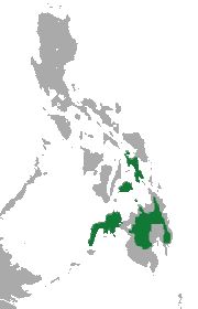 Mindanao Shrew (Crocidura beatus) range